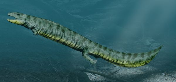 Pholiderpeton